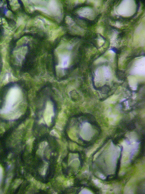 Spongy mesophyll layer of a leaf, through the microscope.